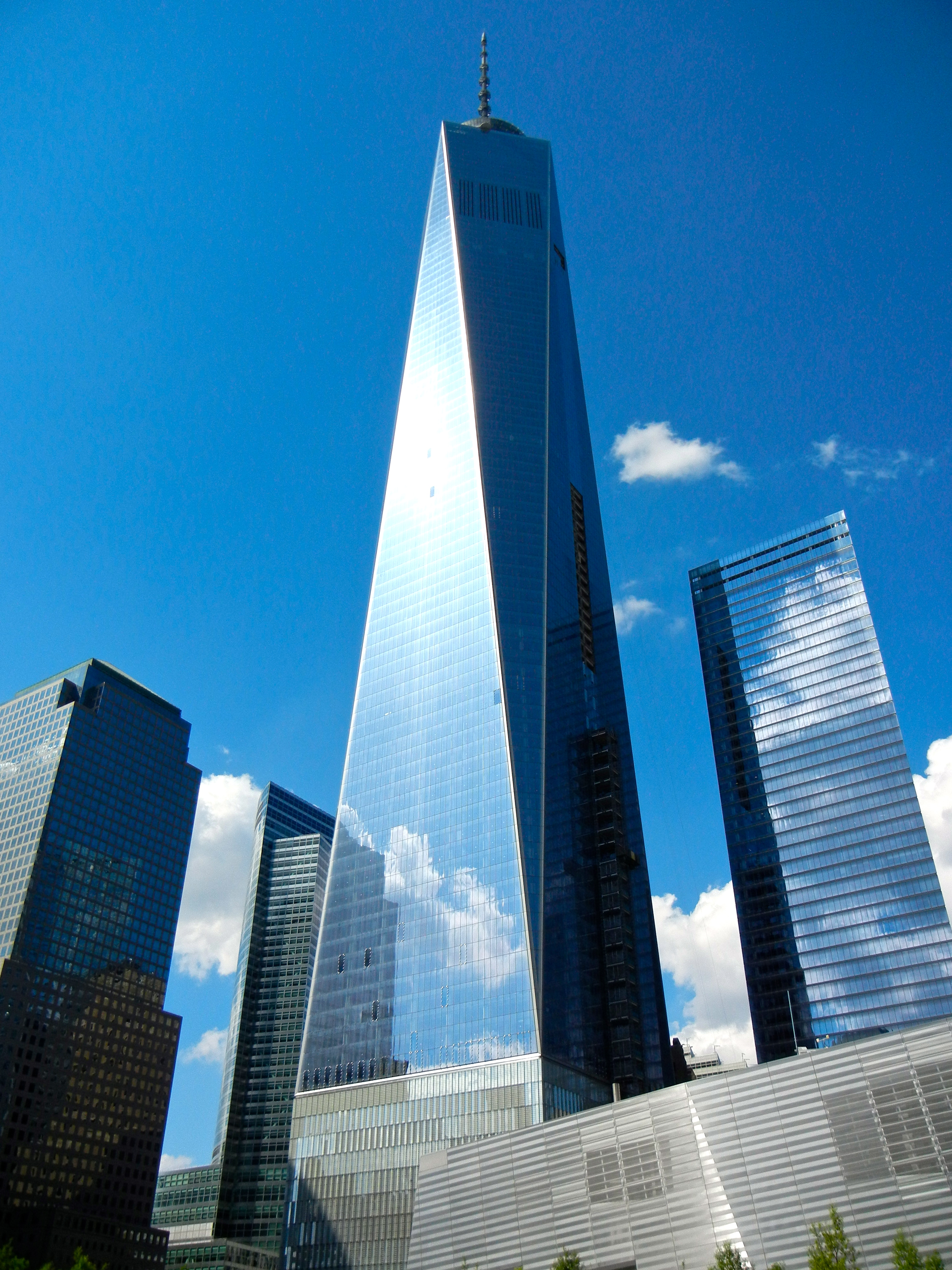 New York's One World Trade Center from bottom